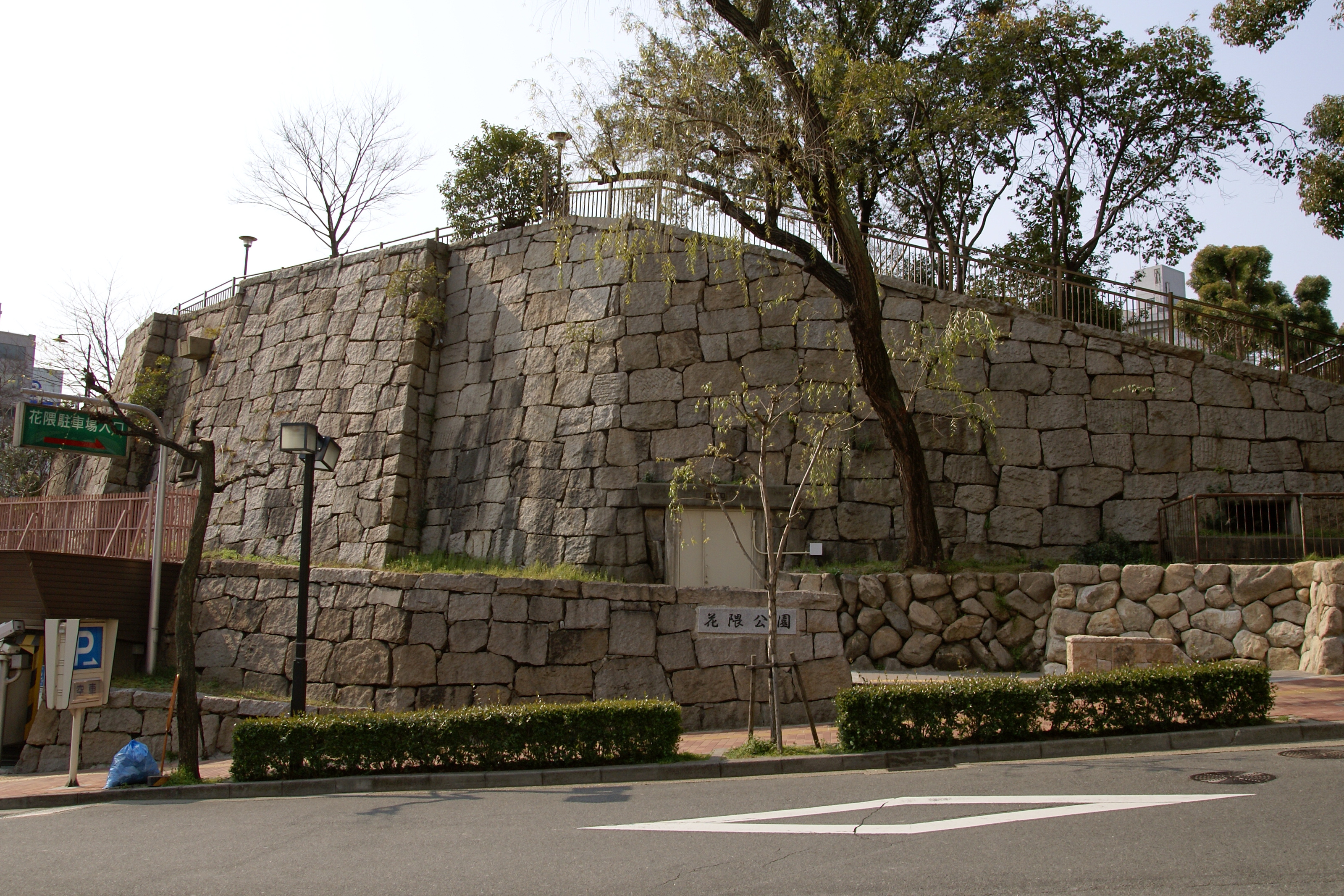 Hanakuma Castle in Kobe, Hyogo prefecture, Japan